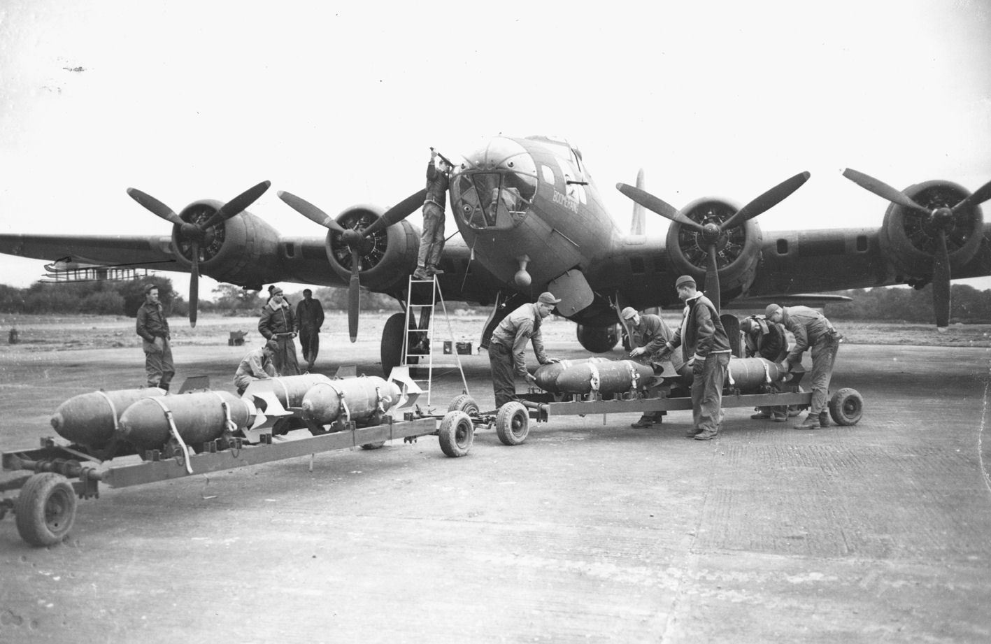 Ground crew of the 92nd Bomb Group load bombs into a B-17 Flying Fortres (serial number 41-9148) nicknamed "Boomerang" at Bovingdon. A censor has obscured a structure in the background. Image stamped on reverse: 'Passed for publication 17 Oct 1942.' [stamp] '227548' [Censor no]. Printed caption on reverse: '"FORTRESS MAKES HISTORY IN THE AIR Oct. 1942.